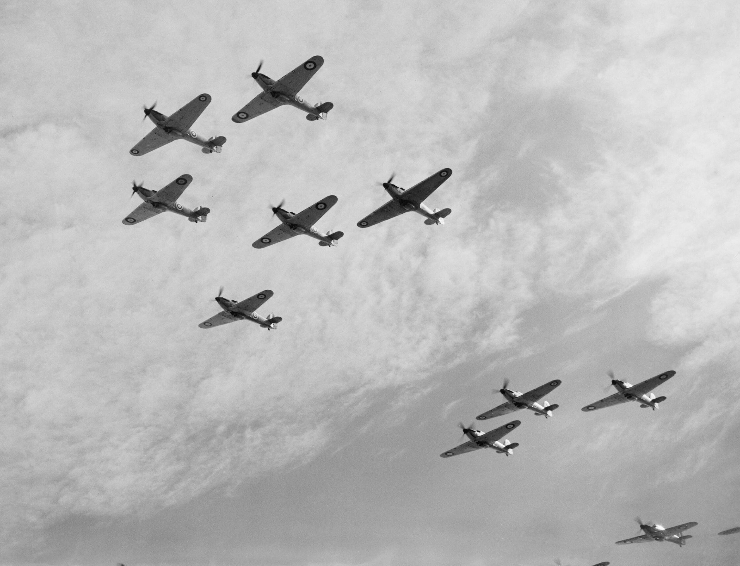 Hawker Hurricanes of No. 85 Squadron RAF, October 1940. Operations: Nine Hawker Hurricanes of 85 Squadron, Royal Air Force seen from slightly below.